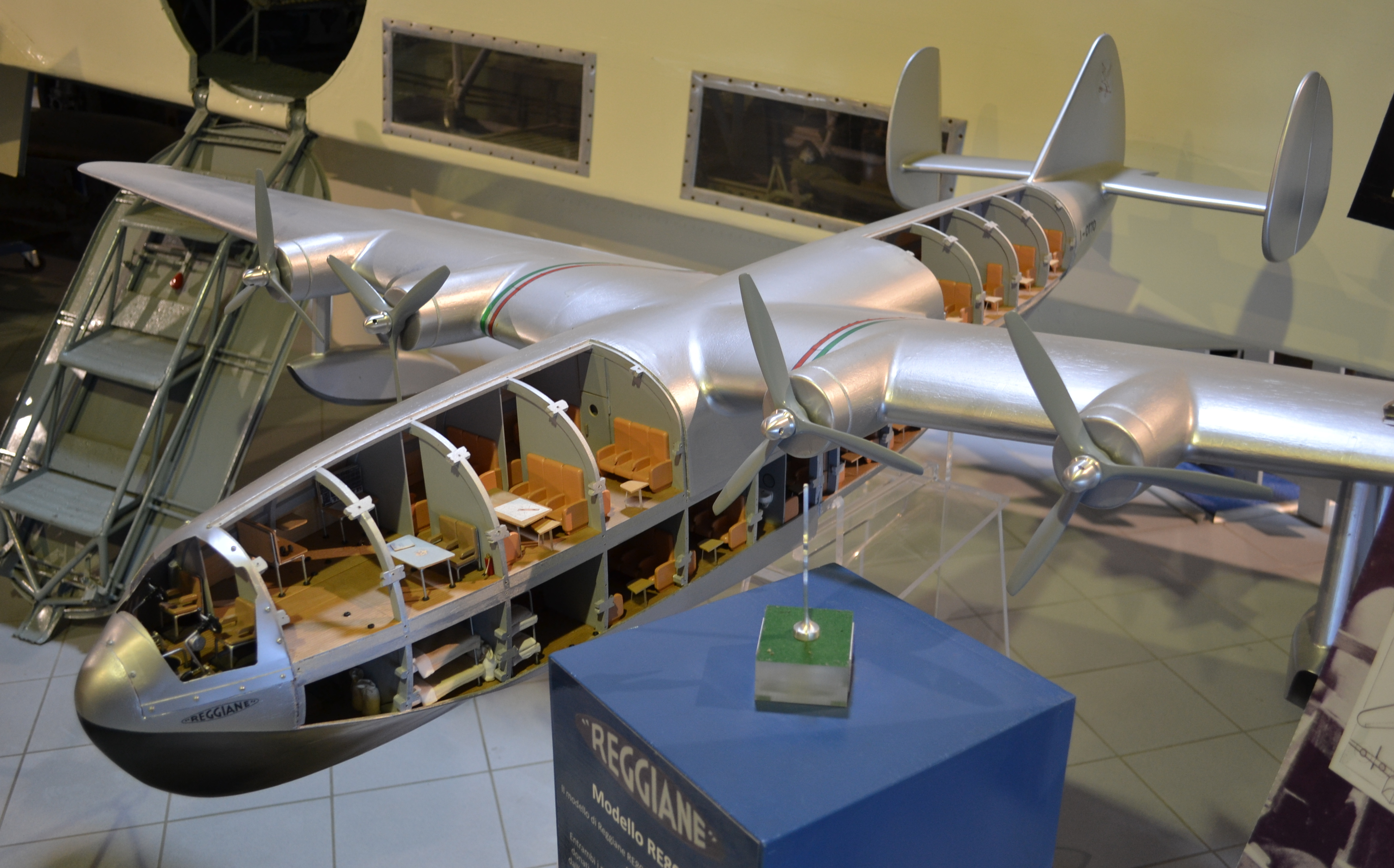 Scale model of a Reggiane Ca.8000 on display at the Gianni Caproni Museum of Aeronautics.